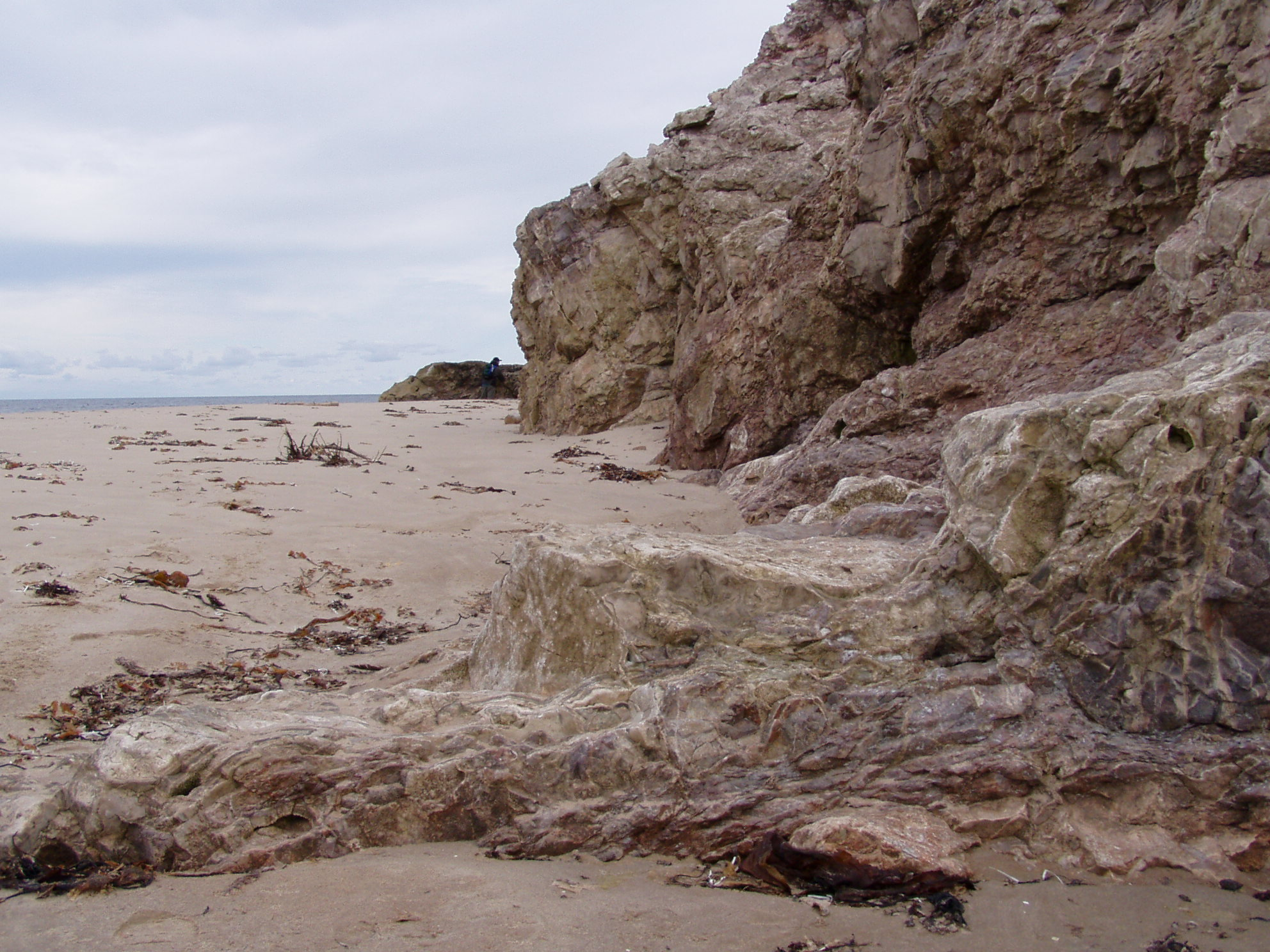 Description: Beach on the south shore of Brion Island Location: Brion Island, Magdalen Islands, Québec, Canada Date: 2006-08-28 Source: picture taken by Danielle Langlois